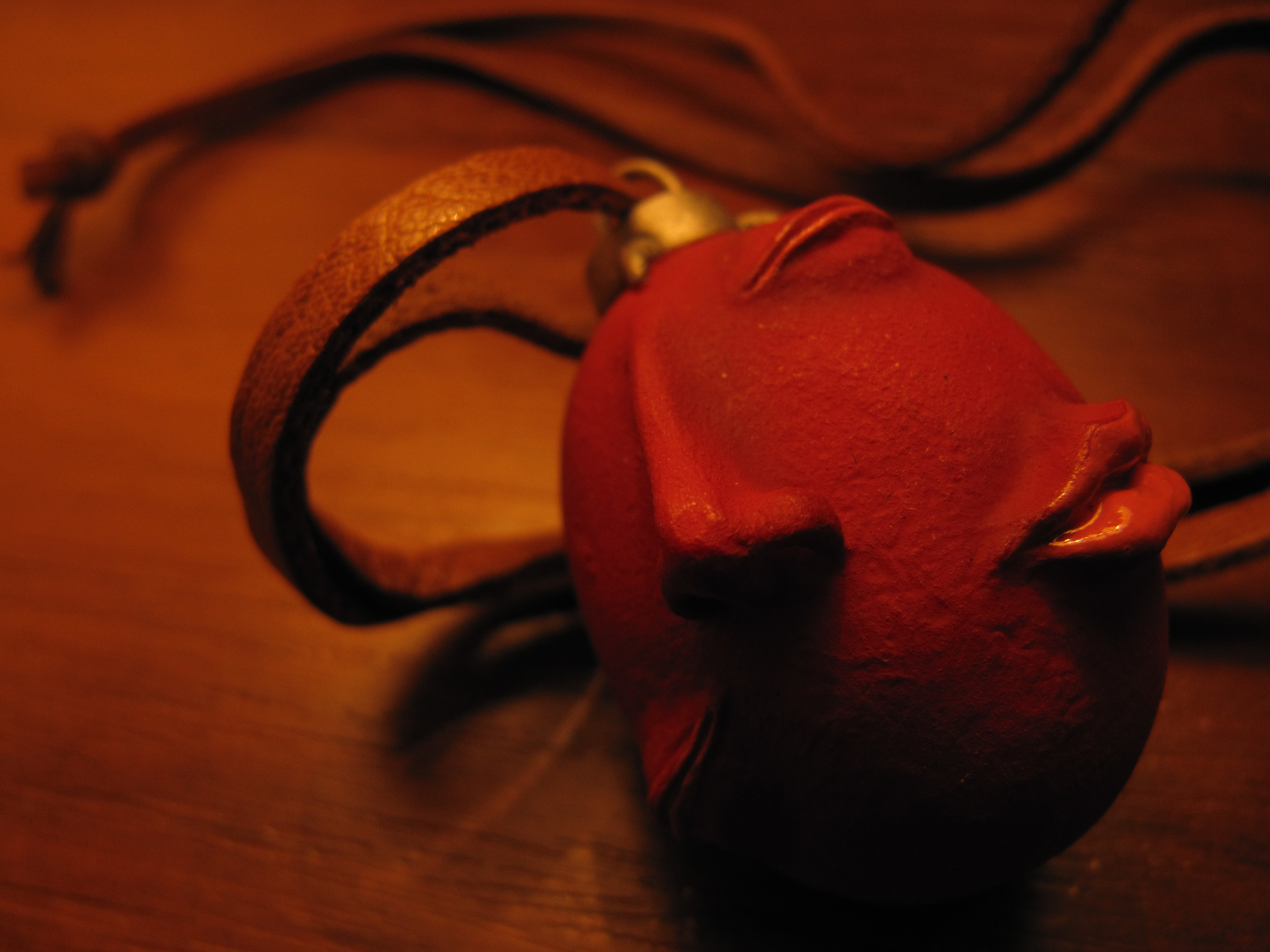 Berserk (manga). Behelit egg by «Art of War».